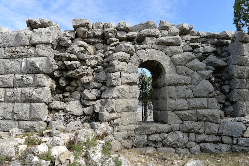 Oionoanda, Hellenic Wall, Turkey